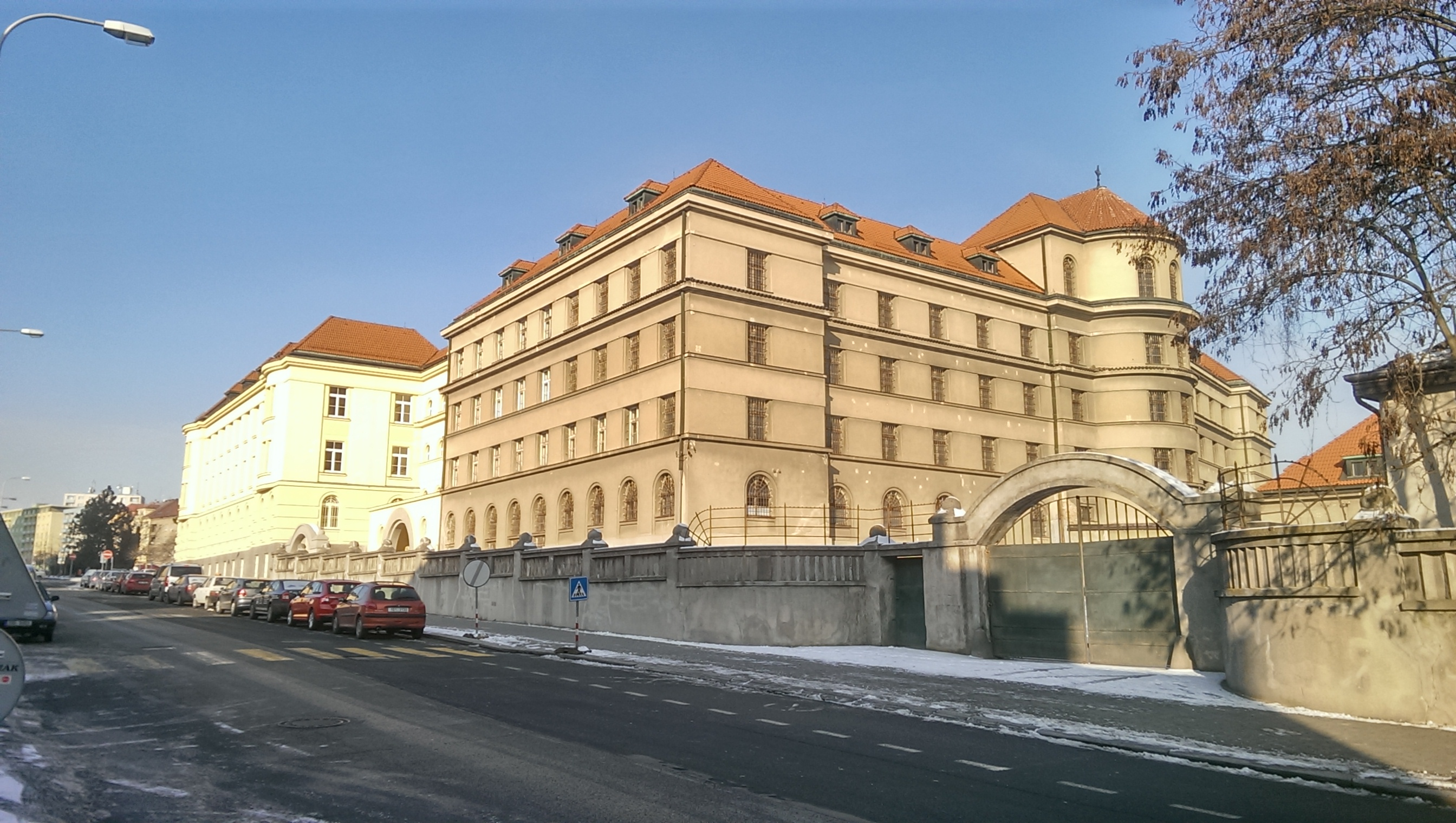 A former prison connected to the building of the District Court in Mladá Boleslav. Currently used as a movie location.